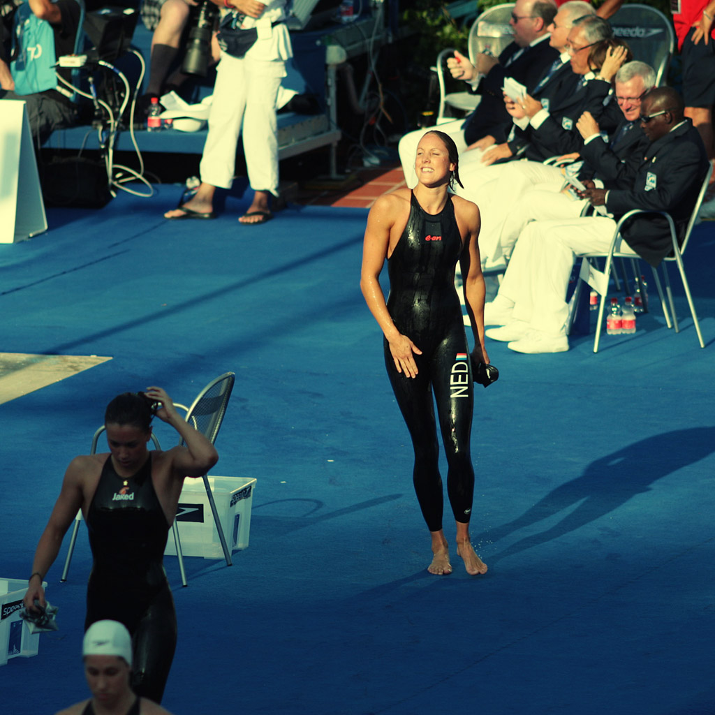 Marleen Veldhuis, dutch swimmer.